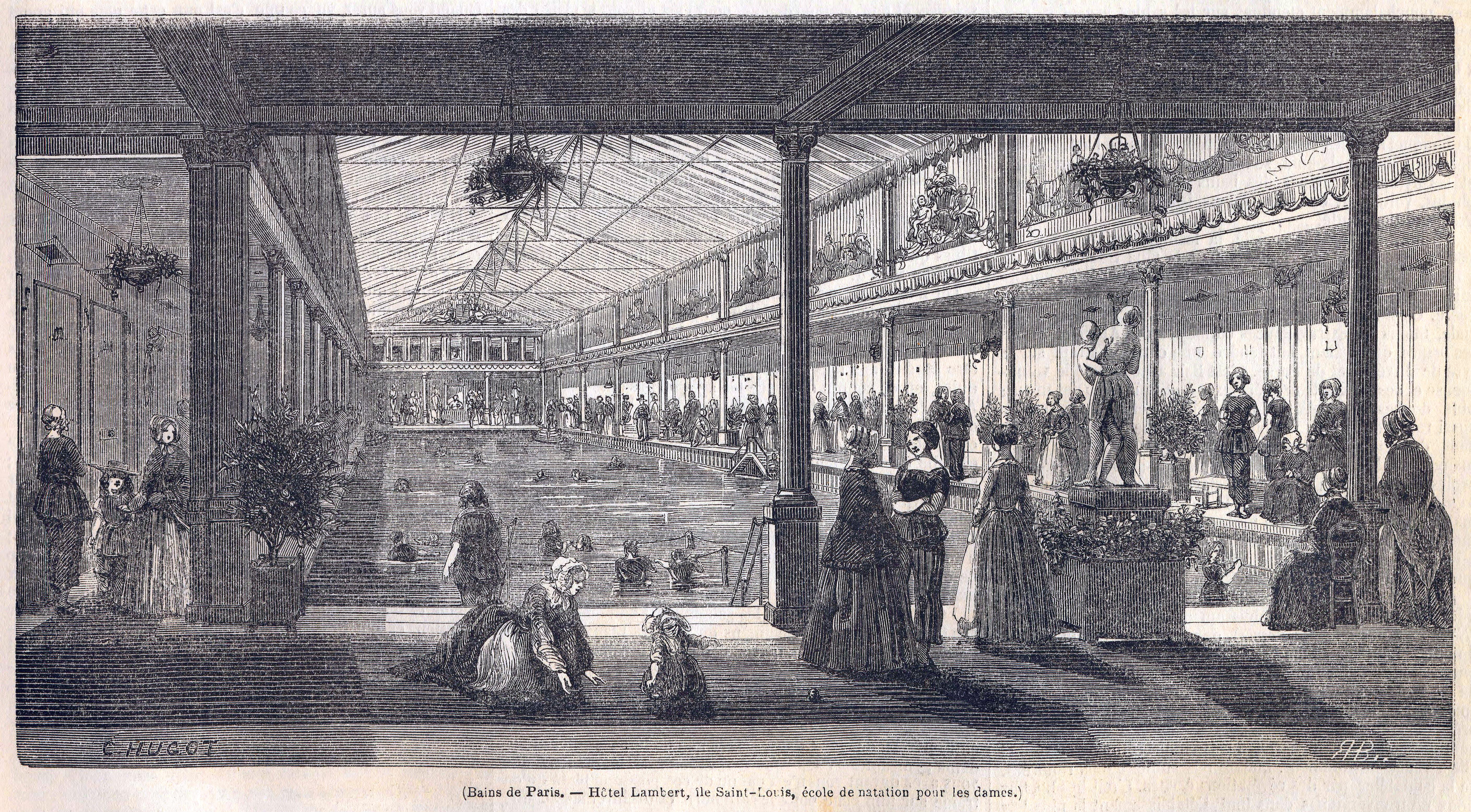 This print shows the public baths of the Île Saint-Louis in Paris.